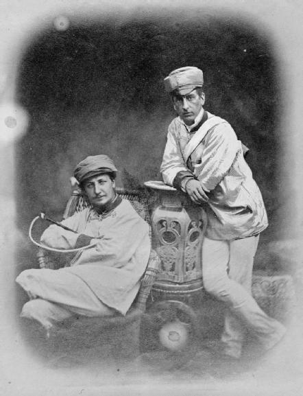 Lieutenant Eardly Maitland, RA (seated left), and Colonel F.C. Maude, VC CB RA.